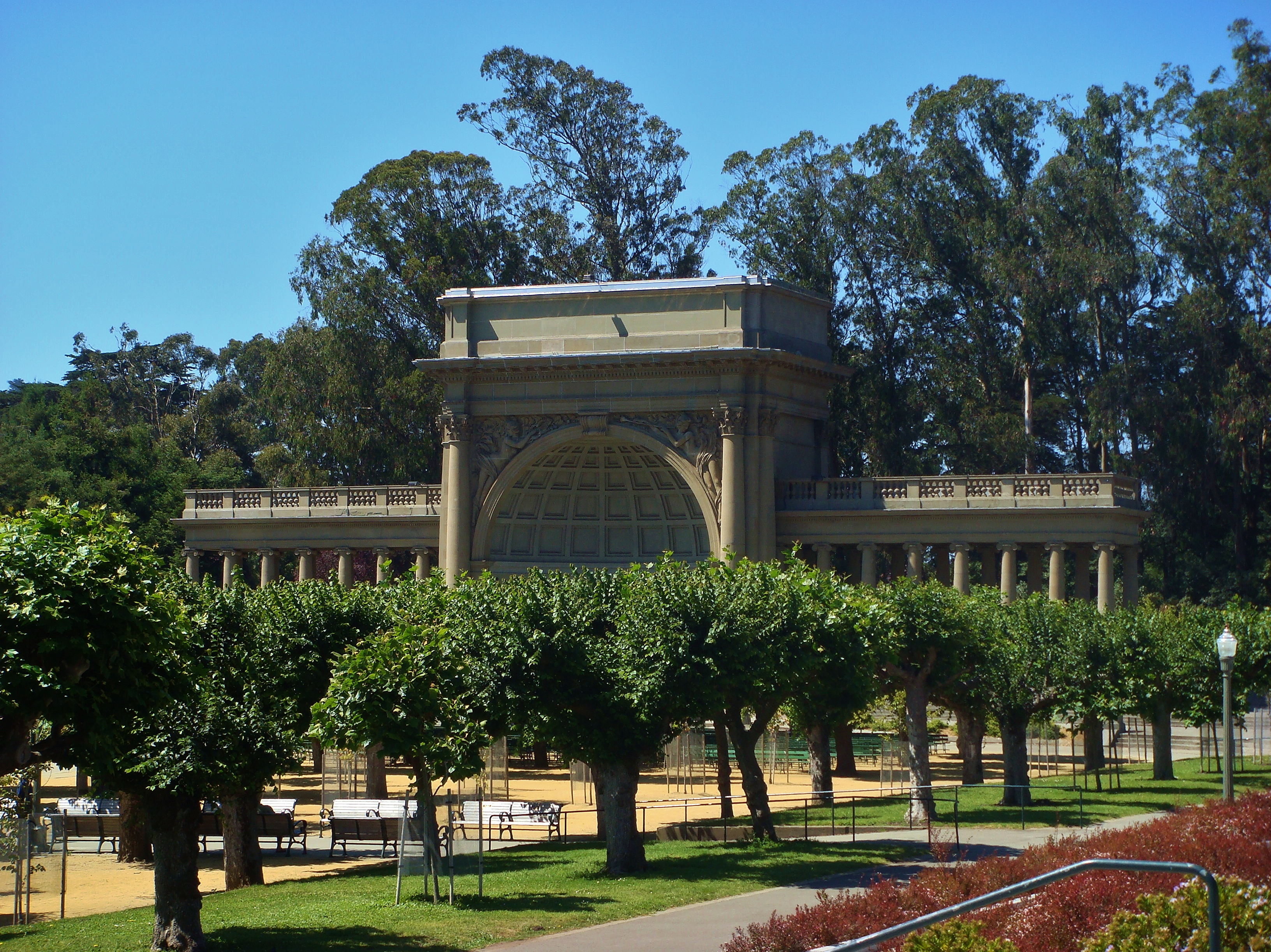 Spreckels Temple of Music near de Young Museum